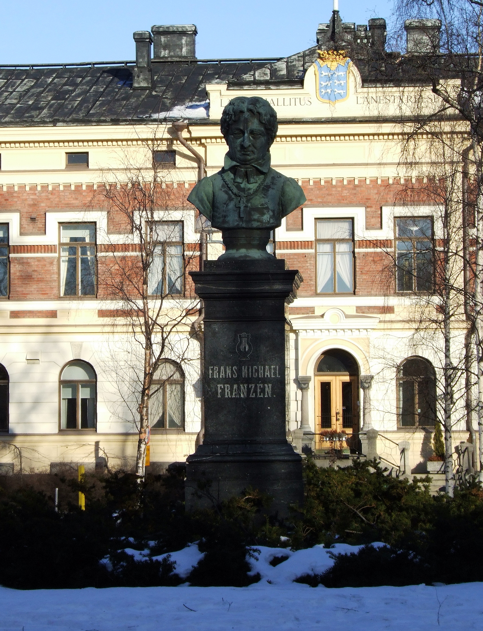 Statue of Frans Michael Franzén, sculpted by Erland Stenberg in 1879, at Franzéninpuisto park in Oulu, Finland. State Provincial Office of Oulu in the background.